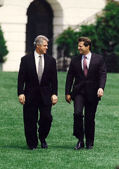 Bill Clinton Walking with Vice President Al Gore on the South Lawn